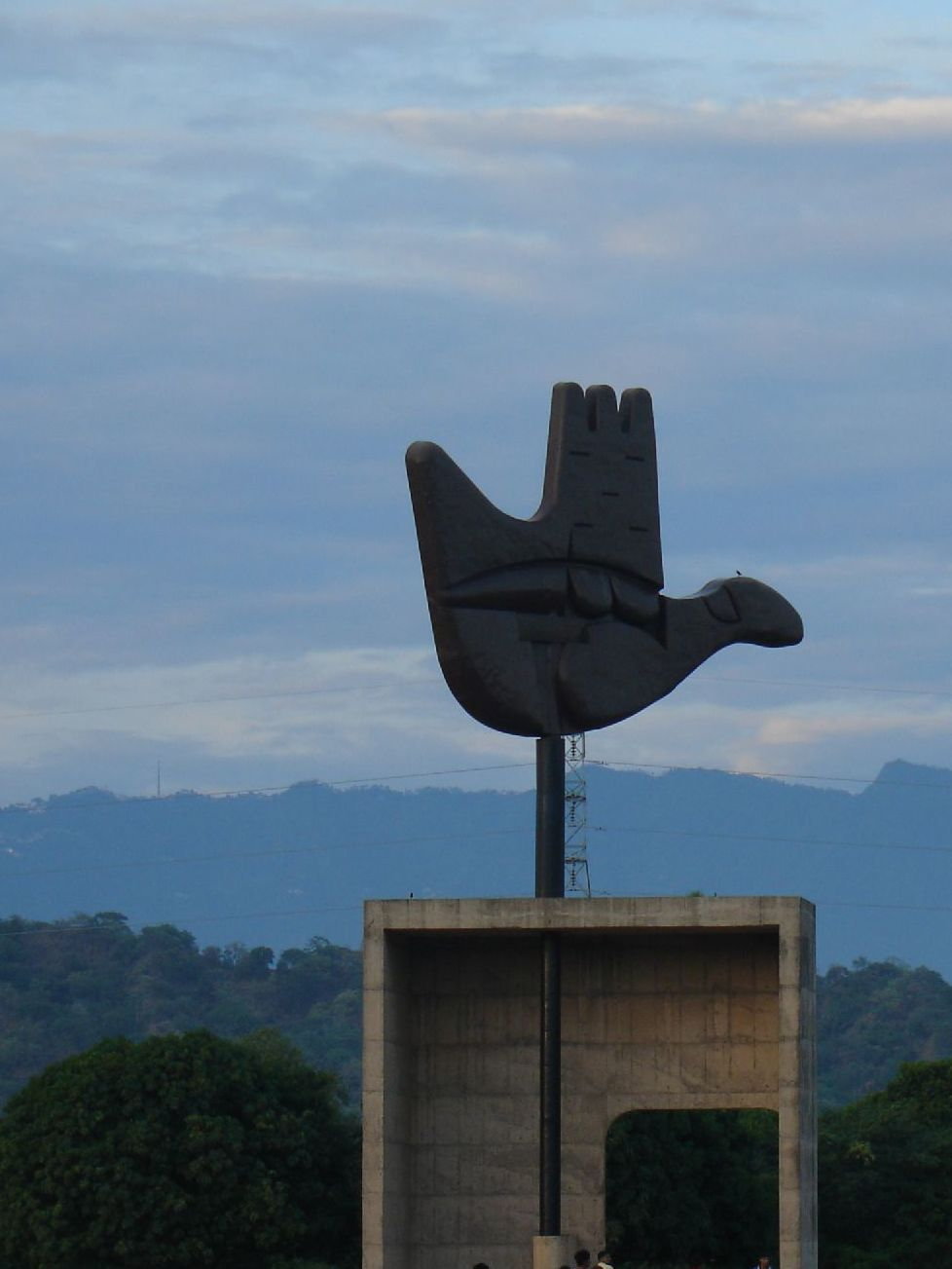 The Open hand is the geographical representation of the city Chandigarh located in North India. It is a Union Territory which is a capital of two states - Punjab and Haryana. The helicopter view of the city shows that the boundry of the city forms the shape of an open hand (like the one above). This Open Hand symbol is located behind the High Court in Chandigarh and it has the tendency to change its direction based on the flow of wind.